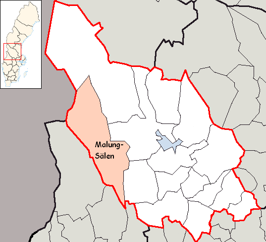 New map after the municipality changed its name from Malung to Malung-Sälen on January 1, 2008